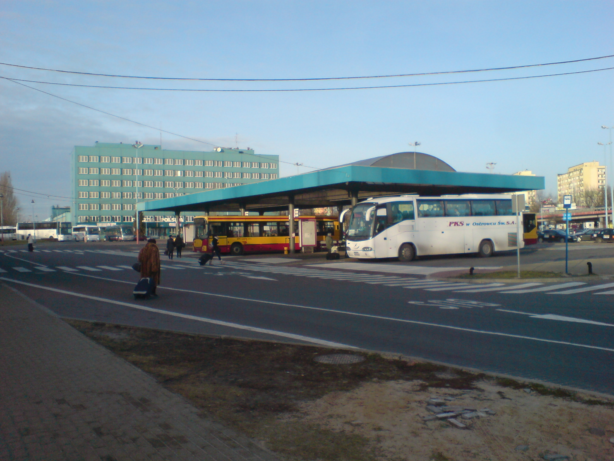 Łódź Kaliska coach terminal in 2011